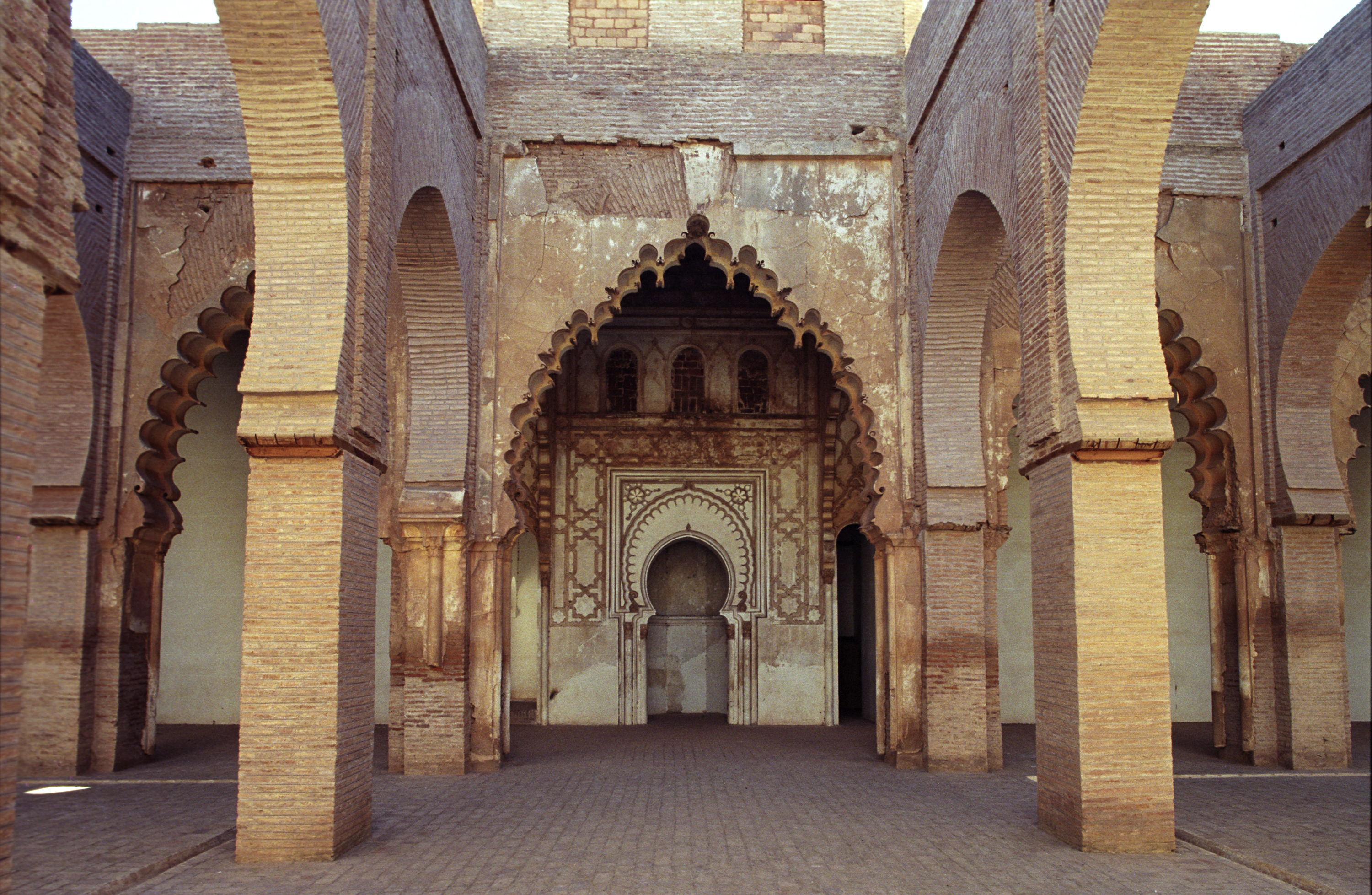 Morocco, mosque, High Atlas